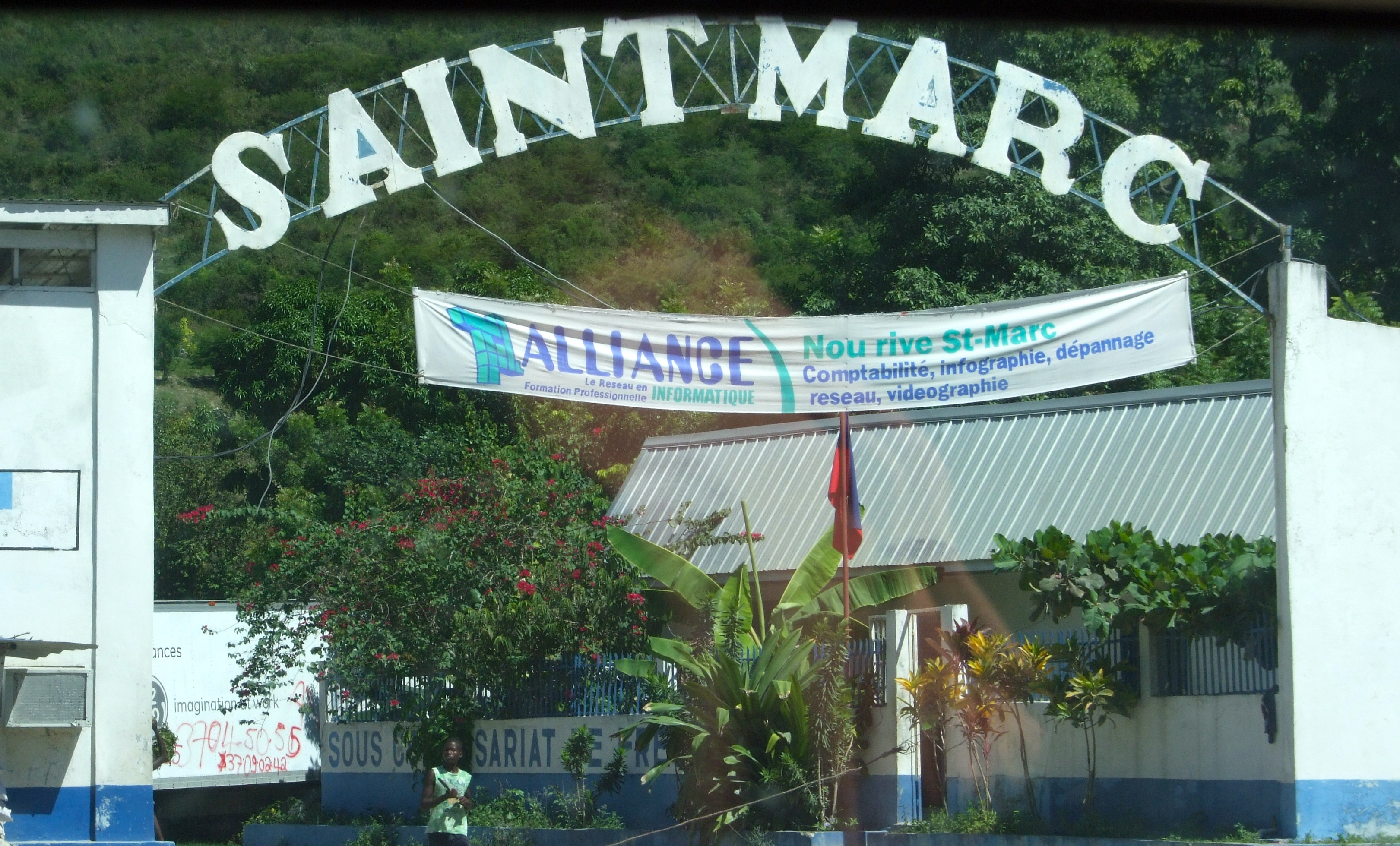 Saint-Marc Welcome Sign at FrecyneauKreyòl ayisyen : Antre vil Sen Mak nan zòn Fresino